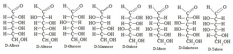 This is a series of diagrams of the eight different Hexoses/Aldoses of the "D" form.